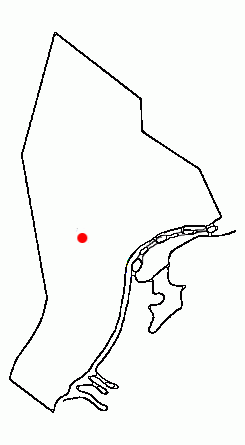 Location K12-B